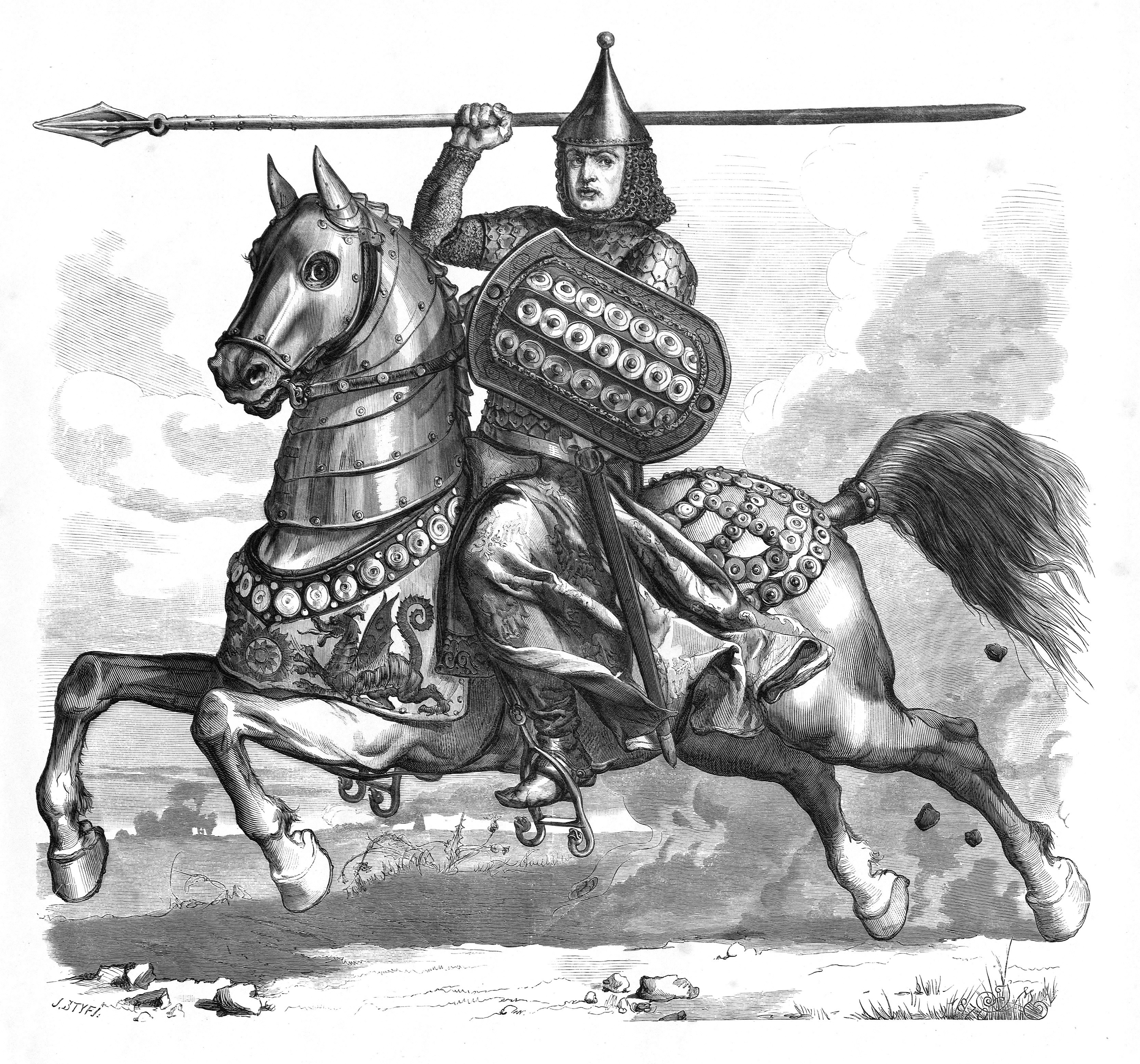 Trojden I, Duke of Czersk